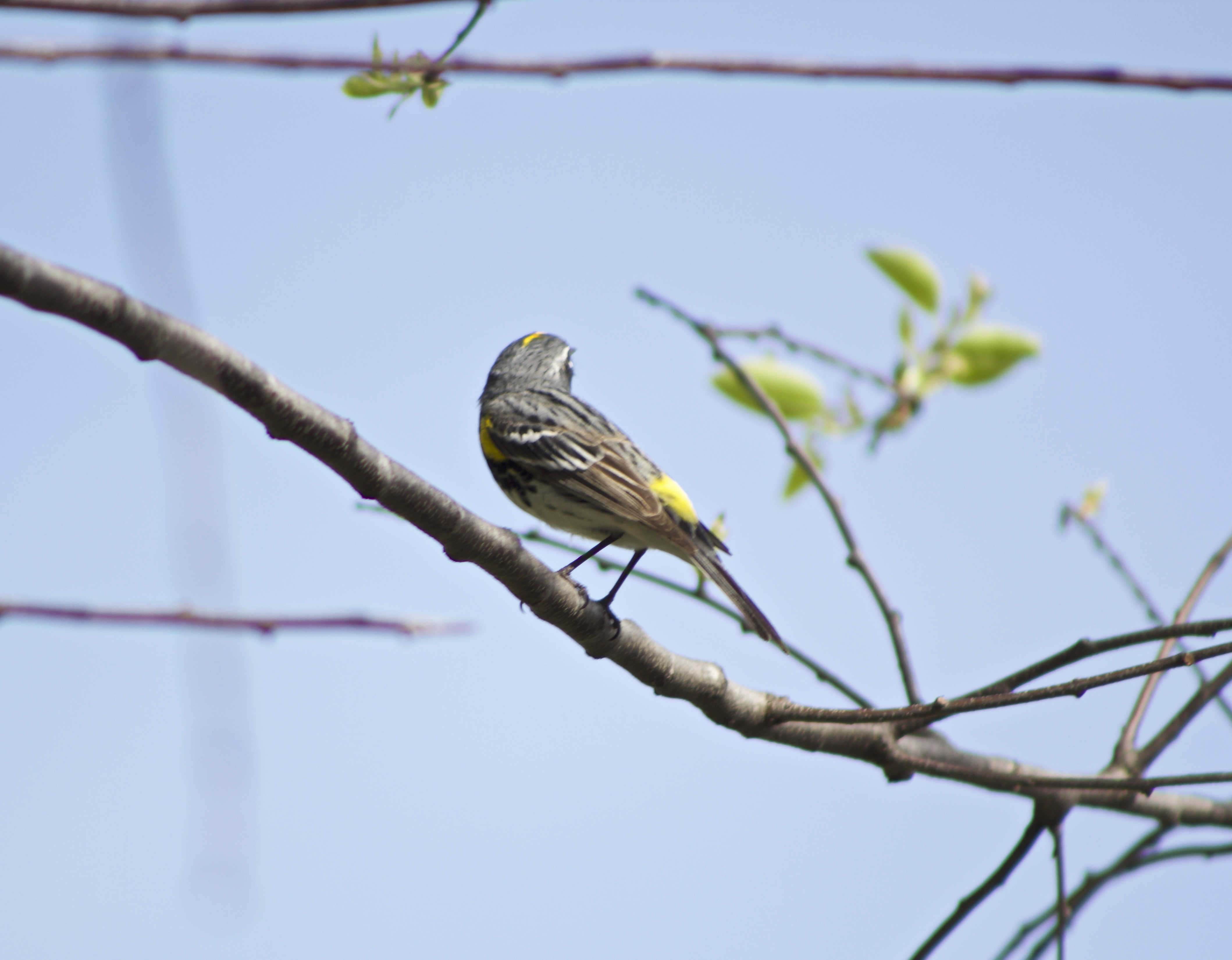 View of myrtle warbler (Setophaga coronata coronata) showing yellow crest and rump. Medford, Massachusetts, USA.